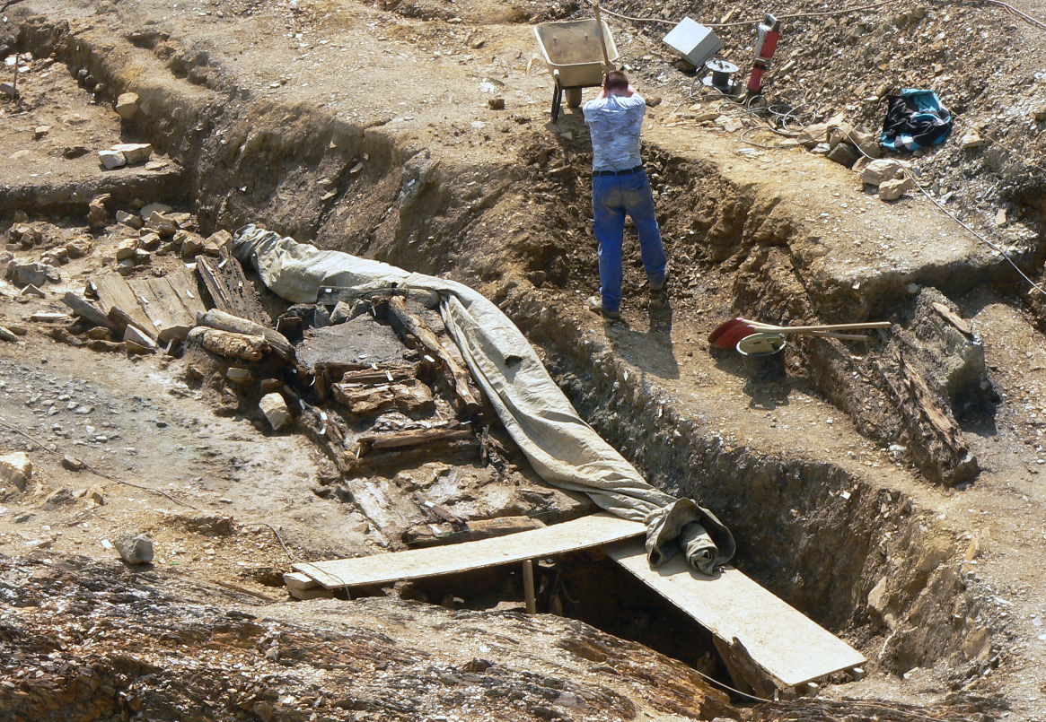 Ausgrabungsstelle mittelalterliches Bergwerk im Alten Lager am Rammelsberg